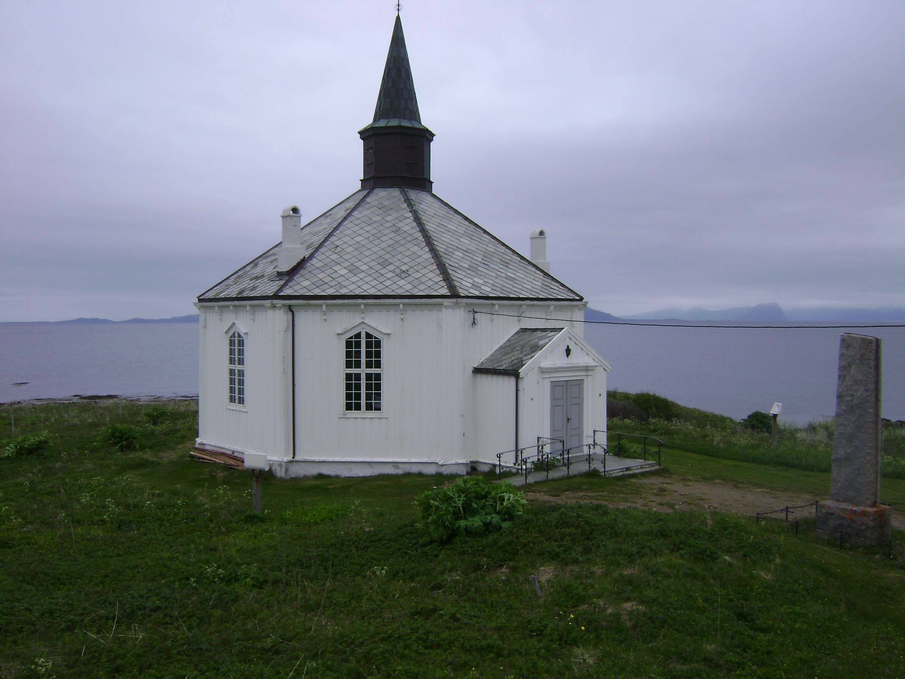 Dverberget church in Andøy county, Nordland